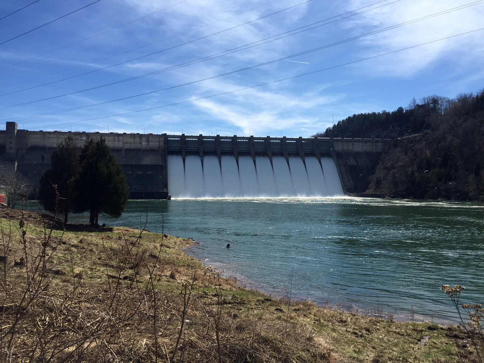 Wolf Creek Dam is spilling today for the first time since Feb. 18, 2004. The U.S. Army Corps of Engineers Nashville District operates the dam, which is located in Jamestown, Ky. The dam is releasing water at a rate of 6,000 cubic feet per second. (USACE photo by Christopher Marlow)